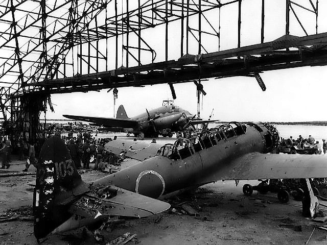 A wrecked Japanese Nakajima C6N1 Saiun (tailcode 21-103) from 1. Teisatsu Hikotai (第1偵察飛行隊) of 121. Kokutai[1] in a hangar on Tinian Island, Marianas, on 30 July 1944. In the background is a Curtiss R5C-1 Commando of the Fourth Marine Air Wing.